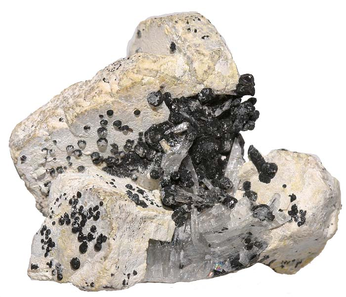 Alamosite, Leadhillite, Melanotekite Locality: Tsumeb, Otjikoto (Oshikoto) Region, Namibia (Locality at ) Size: miniature, 3.5 x 2.5 x 1.5 cm Alamosite, Melanotekite, Leadhillite A small piece but truly oustanding for the finely crystallized alamosite on matrix of finely crysatllized leadhillite, and for the richeness and near-record size of the melanotekite! The overall combination is a relative value in that you get three very rare minerals, in excellent crystals, altogether - and in a displayable specimen, no less!